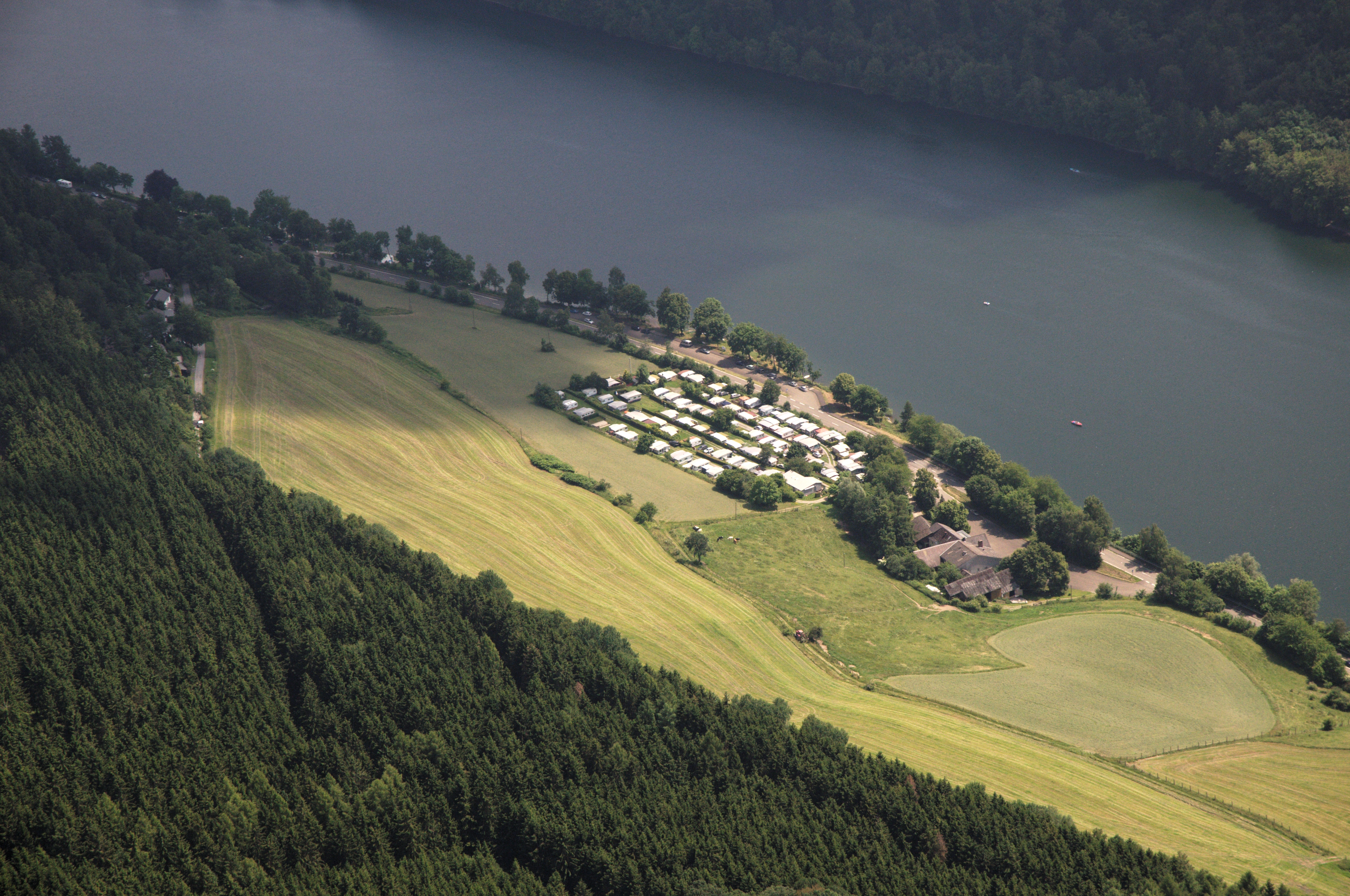 Fotoflug Sauerland-Ost: Diemelsee, unteres Ufer: Kotthausen 1, Wochenendhäuser The making of this document was supported by the Community-Budget of Wikimedia Germany.